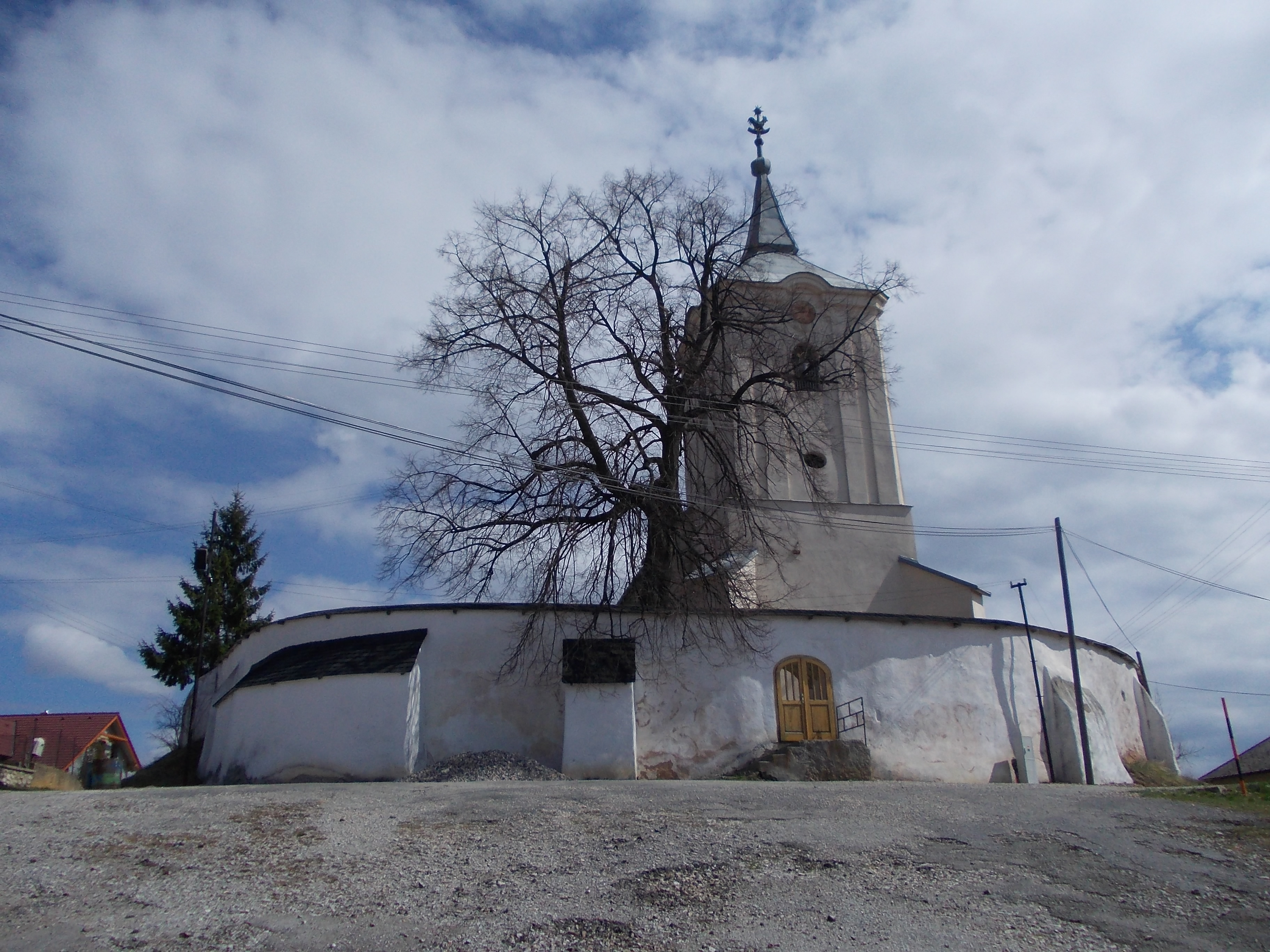 castel in Silica (Slovakia)